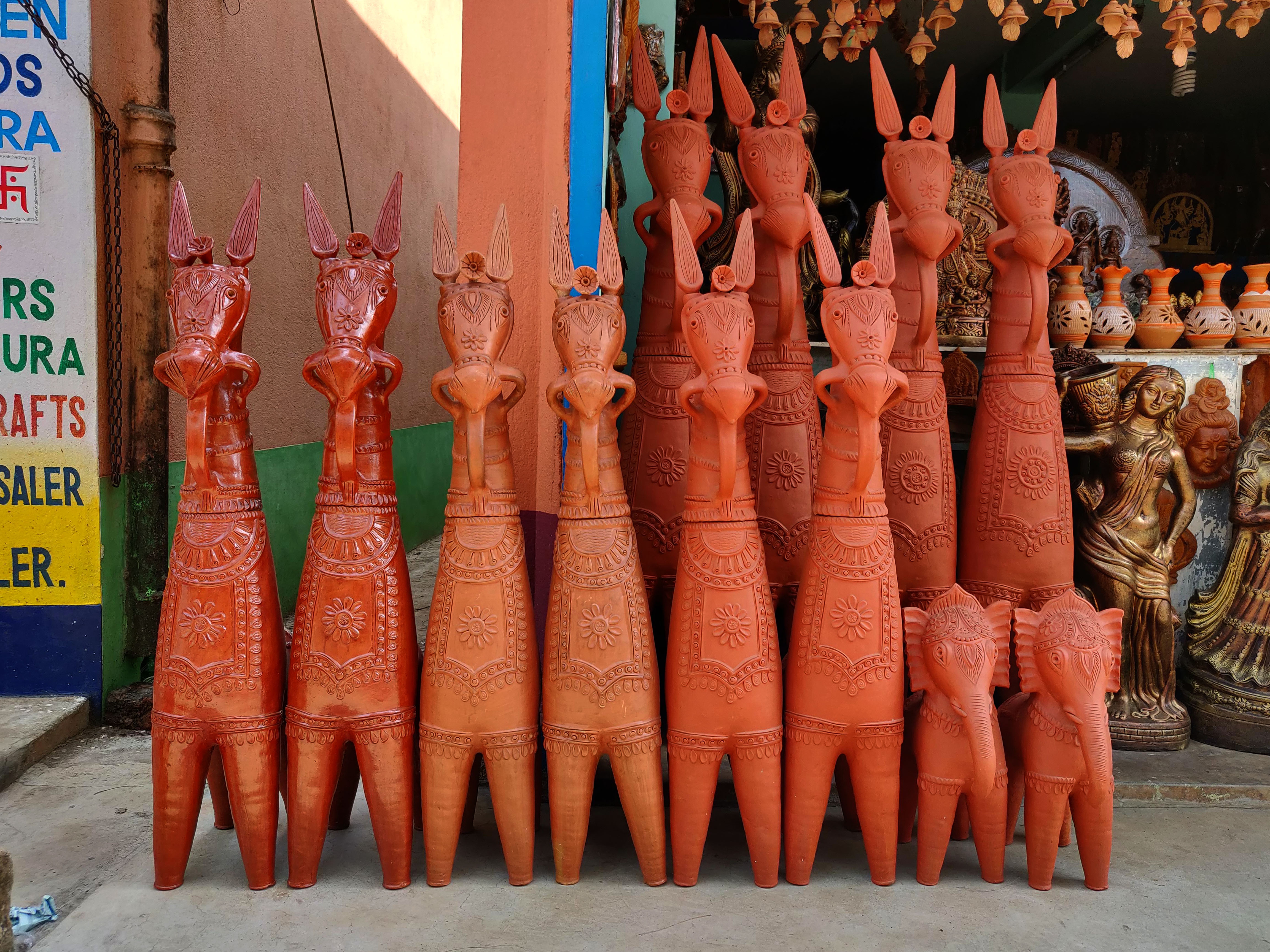 Since ancient times Terracotta artwork has been in use in Bankura District of the state of West Bengal in India. Terracotta artwork has been used in many temple architectures here and now this tradition is maintained by the artisans in building such decorative pieces. This photo has been taken in the country: India